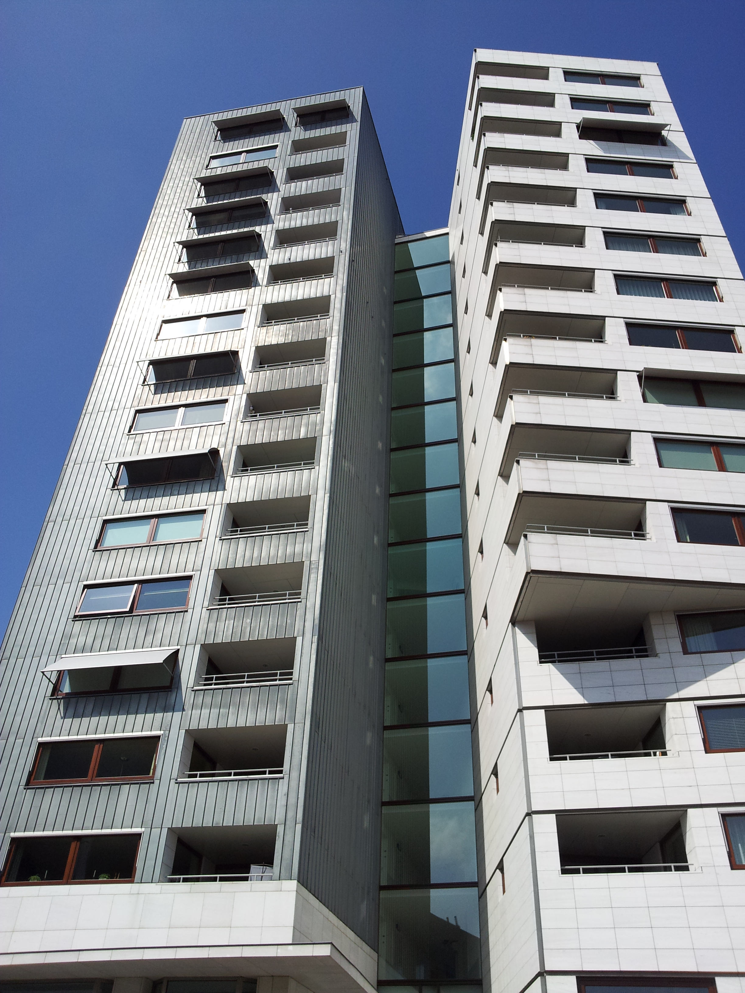 Maastricht, the Netherlands. View of 'Siza's Tower', designed by Álvaro Siza. one of the buildings on Avenue Céramique, the main avenue in the newly developped Céramique district.